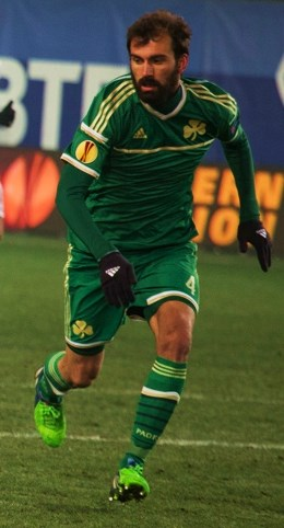 Giorgos Koutroubis